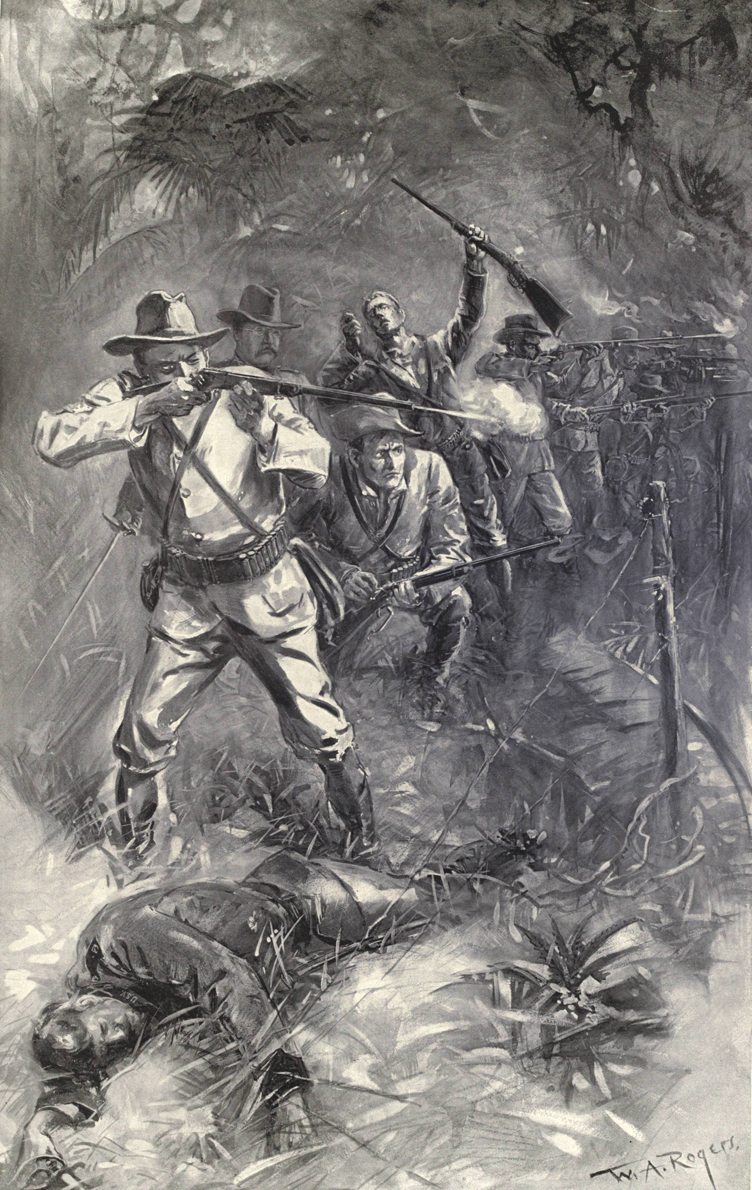 The Battle of Las Guasimas, June 24 - The heroic stand of the "Rough Riders", from p. 331 of Harper's Pictorial History of the War with Spain, Vol. II, published by Harper and Brothers in 1899.